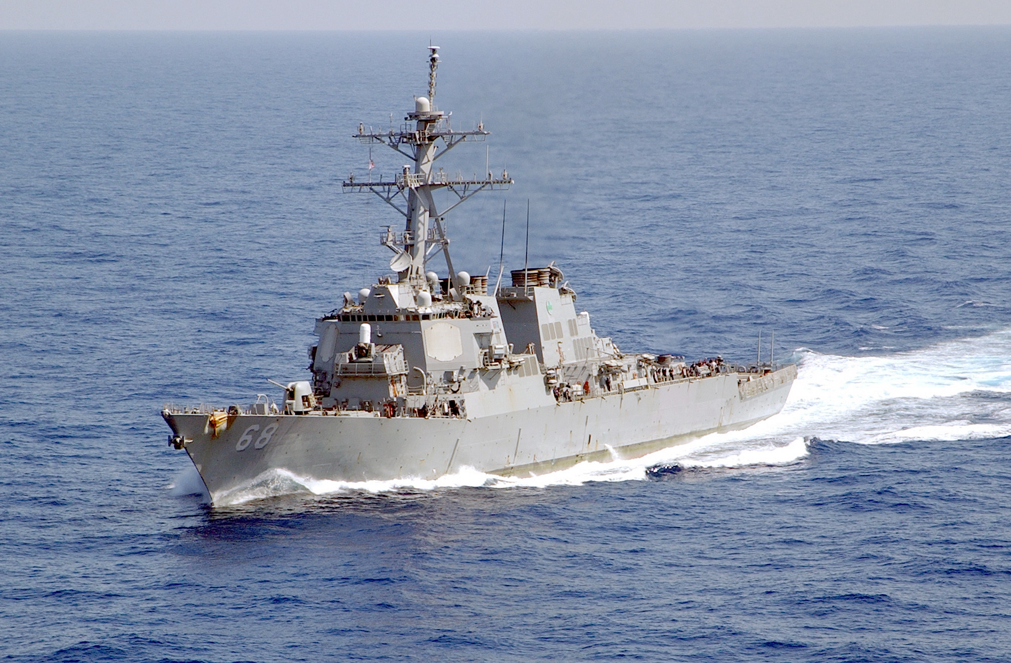 020725-N-6492H-530 At sea with USS The Sullivans (DDG 68) Jul. 25, 2002 -- The guided missile destroyer USS The Sullivans, part of the Kennedy battlegroup, transits the Mediterranean Sea. The Sullivans is named for five brothers who lost their lives in World War II during the Battle of the Solomon Islands. U.S. Navy photo by Photographer’s Mate 1st Class Jim Hampshire. (RELEASED)